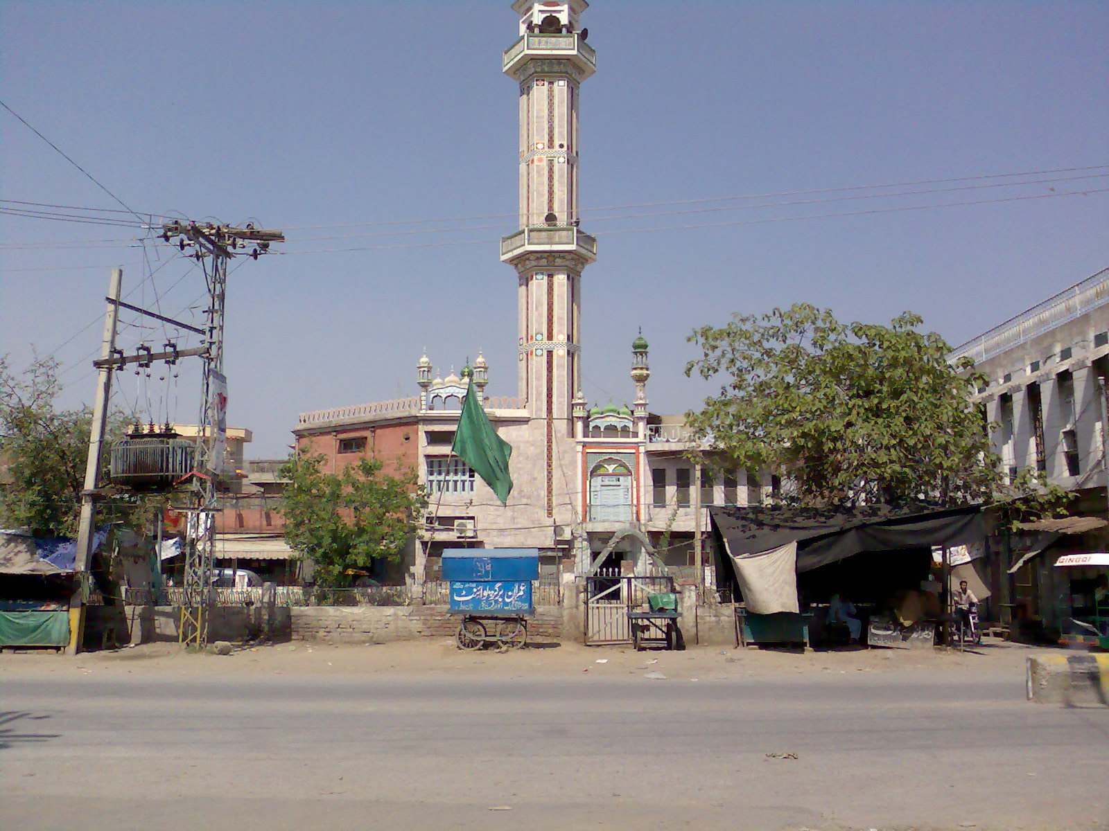 Sh. Qaym Din Masjid, Machine Mohalla # 3, Jhelum